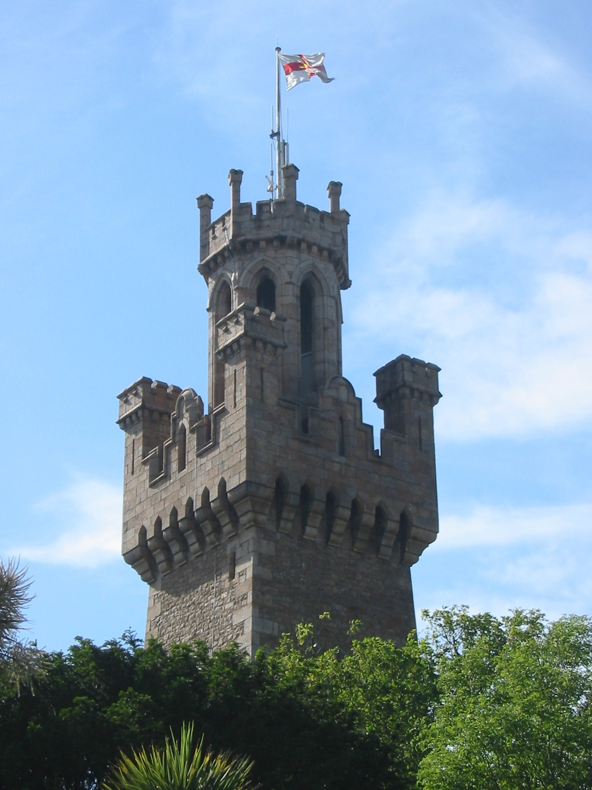 Victoria Tower, Guernsey